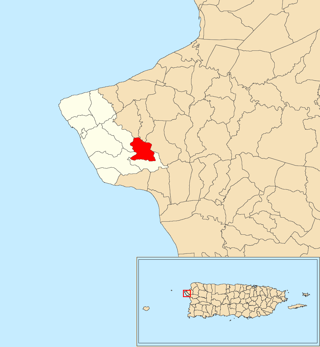 Jagüey, Rincón, Puerto Rico locator map